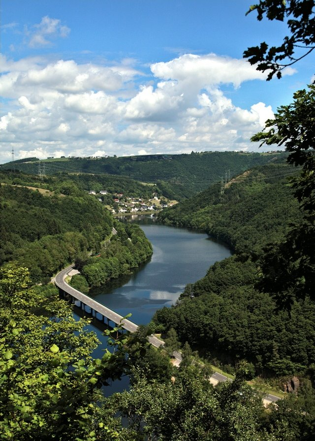 Bivels, village in the north east of Luxembourg; 220 kV overhead power lines connecting Luxembourg and Germany in the background.